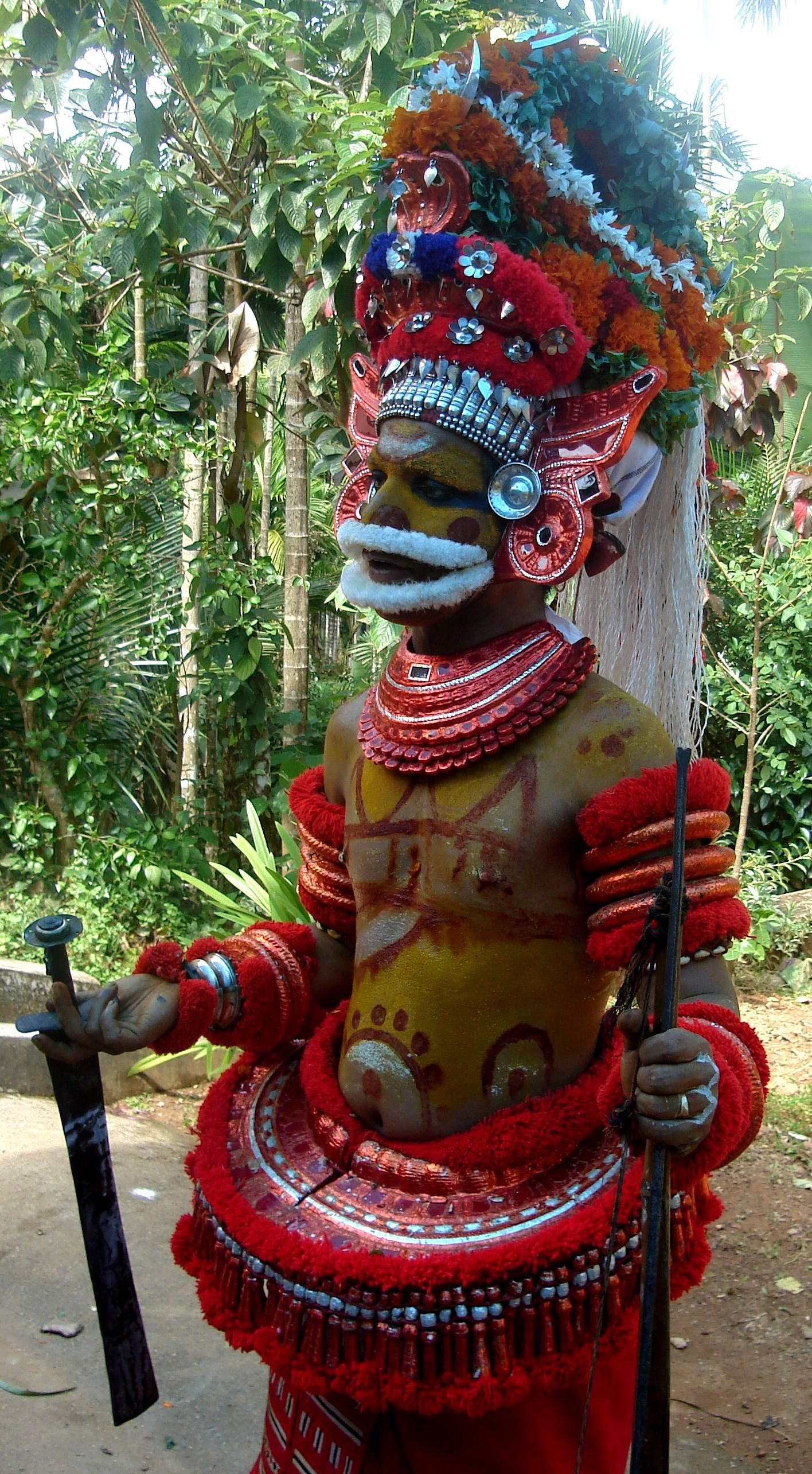 Sree Muthappan Vellattam from Koovery, Kannur